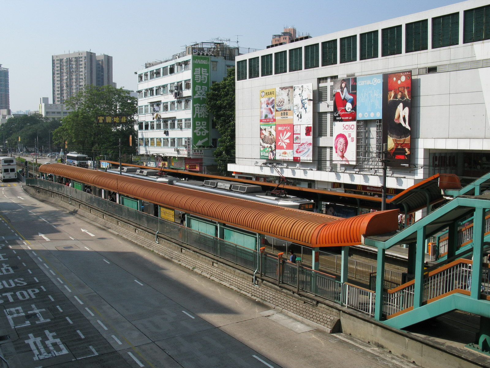 輕鐵 豐年路站 Fung Nin Road Stop, Light Rail